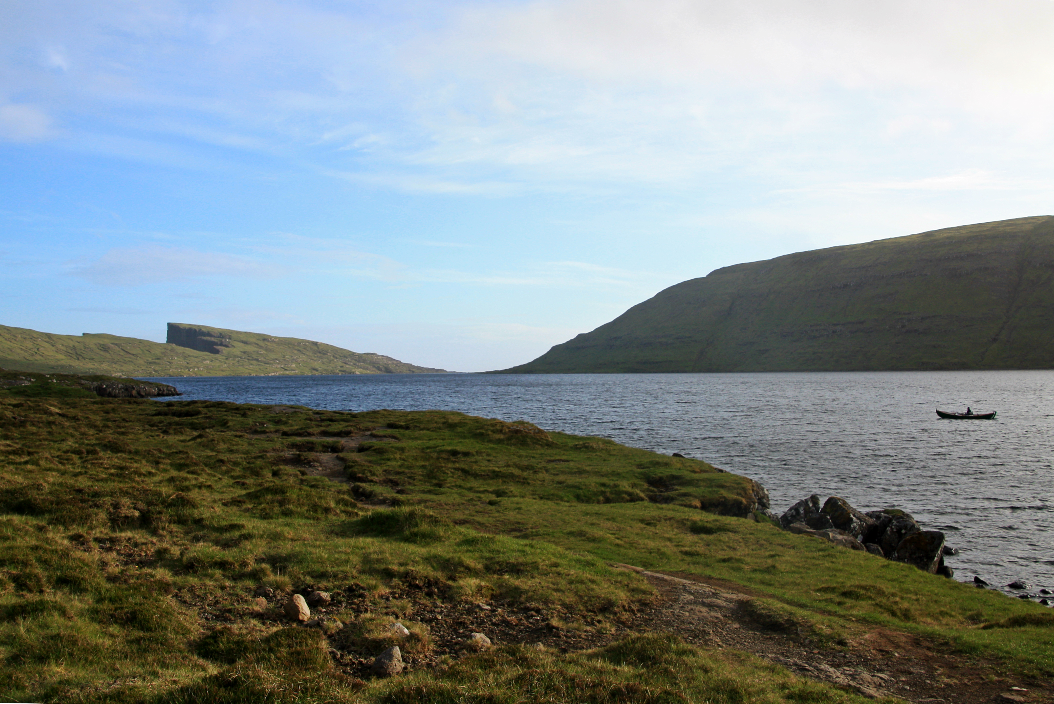 Sørvágsvatn, Faroe Islands